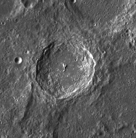 Scaliger lunar crater - LROC image.